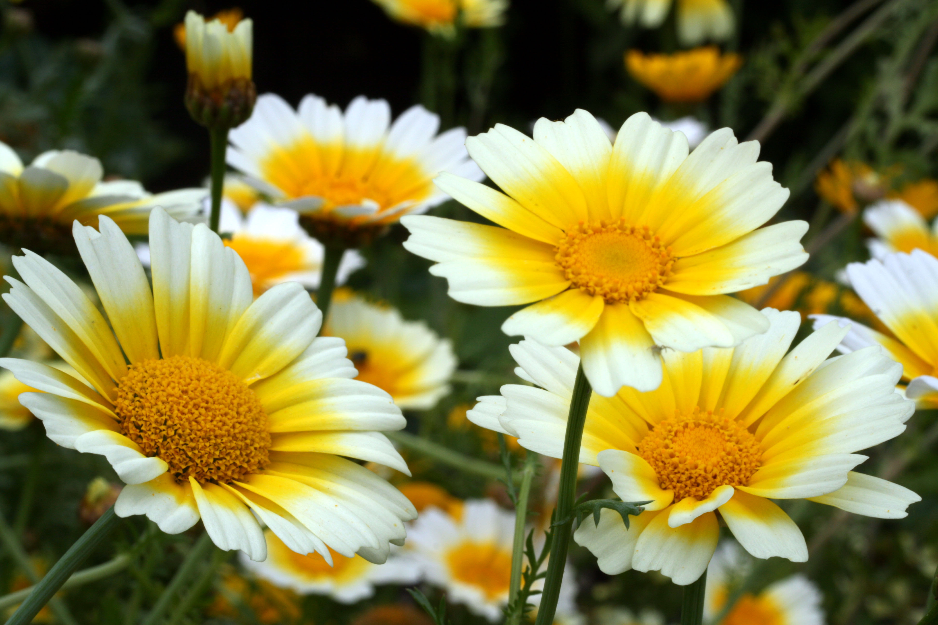 Chrysanthemum coronarium, England 2007